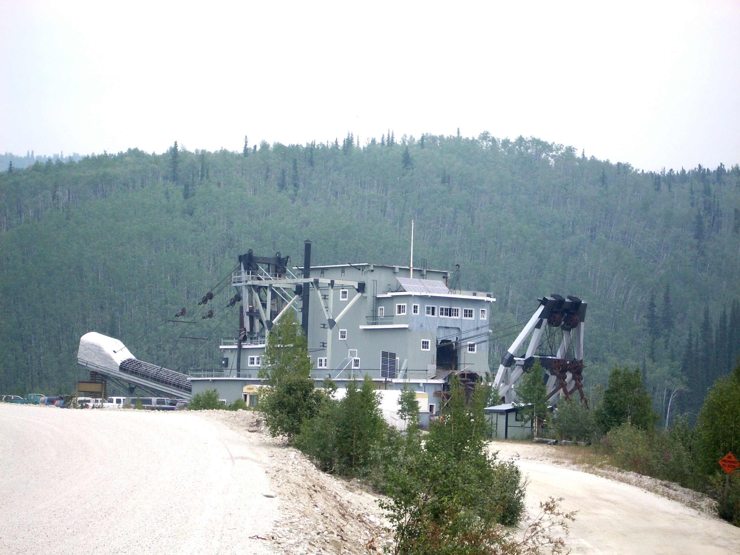 An old dredge on Bonanza Creek (Yukon)